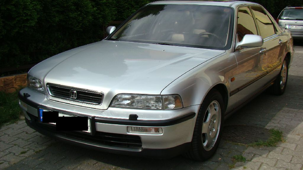 Honda Legend second-generation sedan